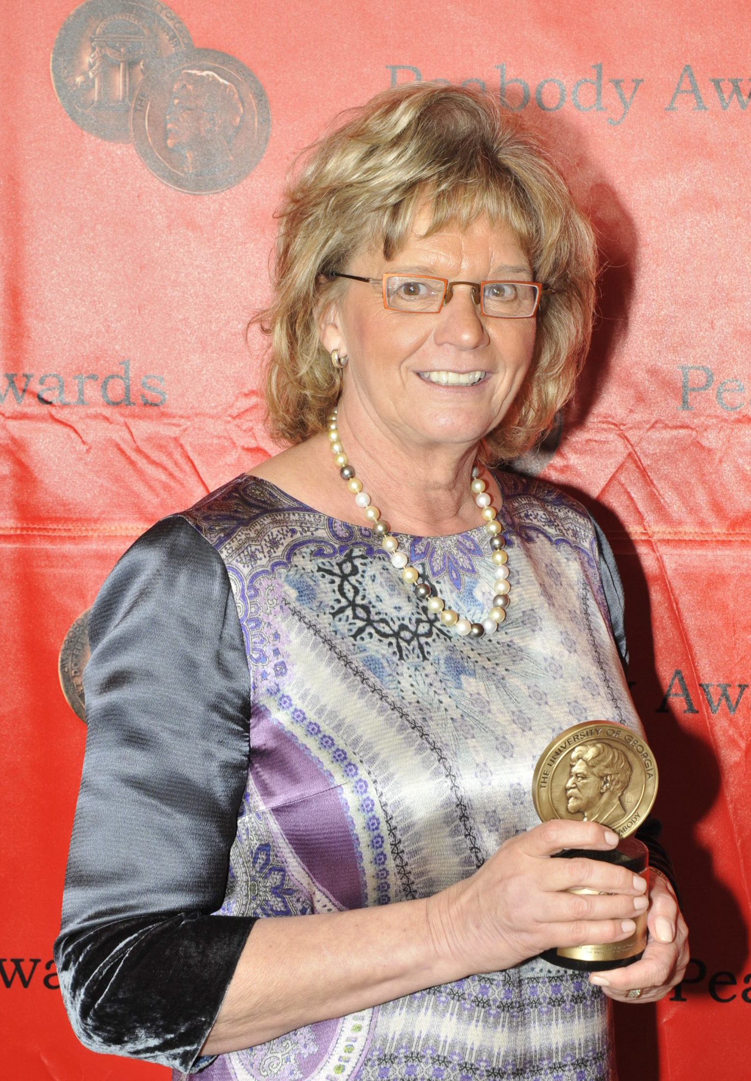 PHOTO CREDIT: ANDERS KRUSBERG / PEABODY AWARDS Linda Schuyler 70th Annual Peabody Awards Luncheon Waldorf=Astoria Hotel May 23, 2011